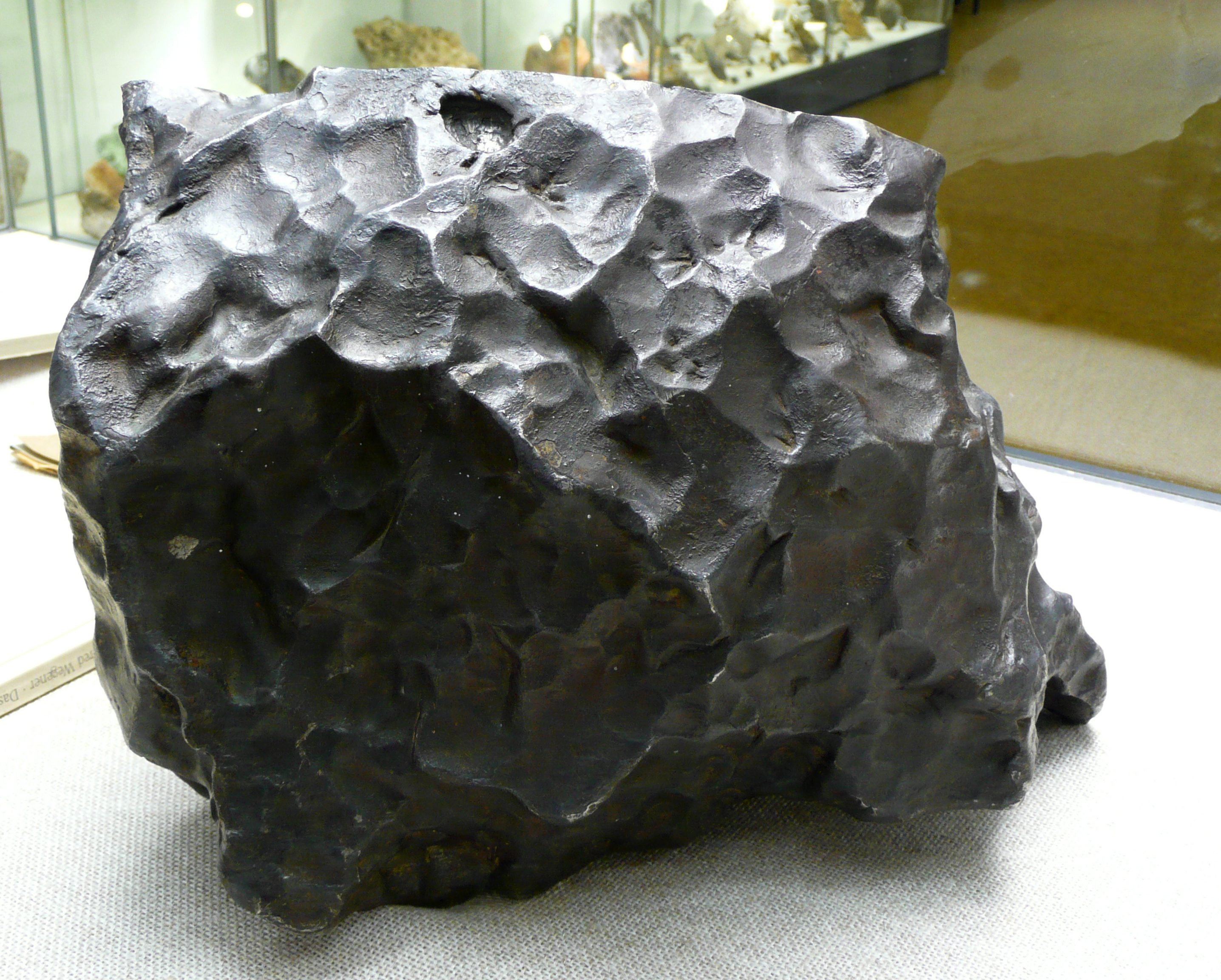 Meteorite of Treysa (mainpart) in the Mineralogisches Museum in Marburg fallen on April 3, 1916 into a forest near Rommershausen near Treysa in Hesse, Germany. Iron meteorite of iron-nickel (Mean Oktaedrit, group III B-ANOM), Weight after finding 63.3 kg, depth of impression: 1.6 m, crater ca. 1.5 x 1 m.